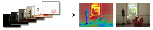 Illustration of HDR image creation using a multiexposure technique. False color image of HDR radiance and tone mapped image are shown on the right.